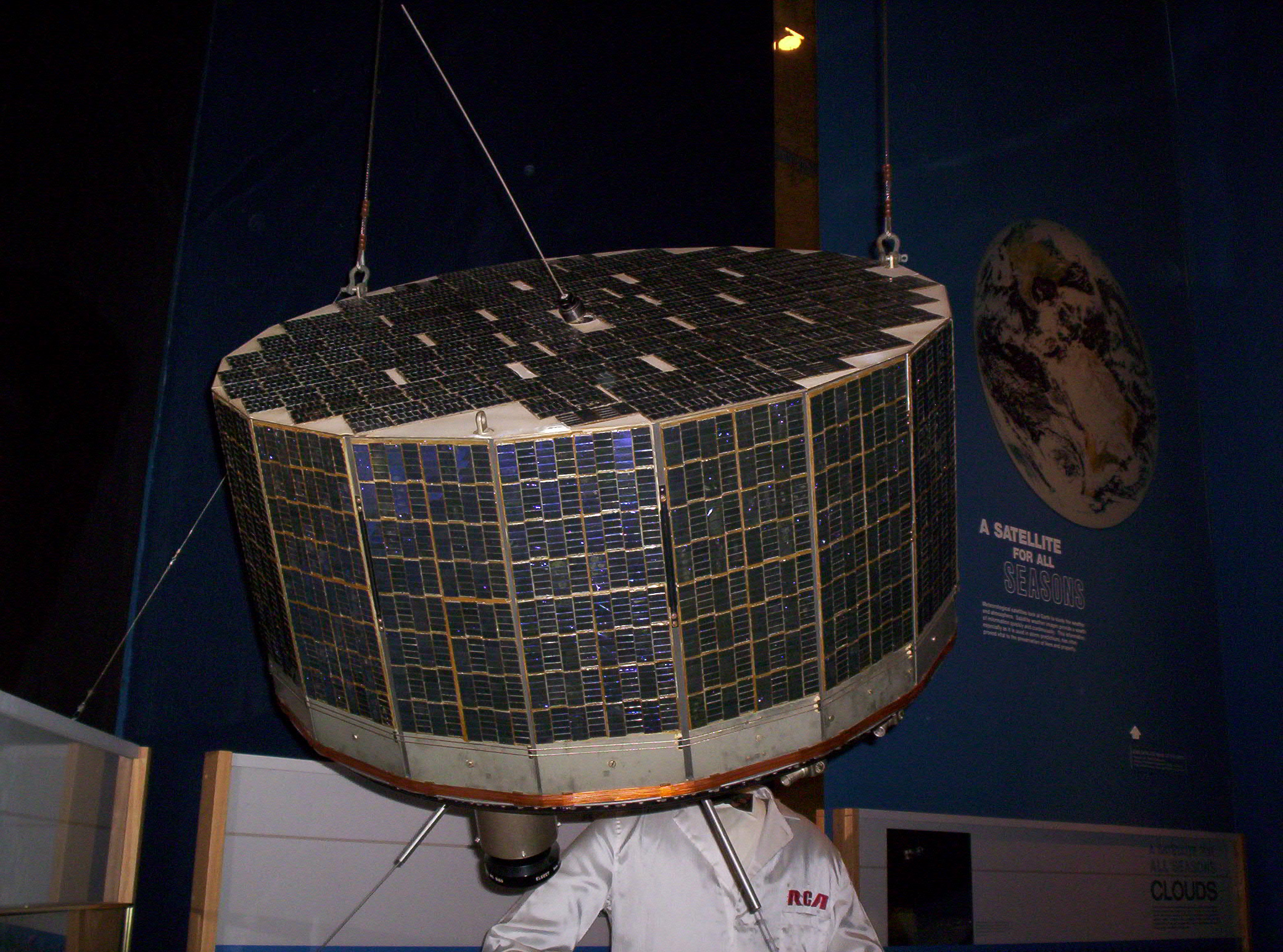 Mockup of the TIROS-1 satellite on display at the National Air and Space Museum in Washington, DC.